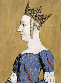 Joanna of Bourbon